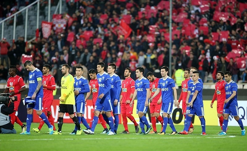 Persepolis FC and FC Nasaf Match (Azadi Stadium) - ACL 2018